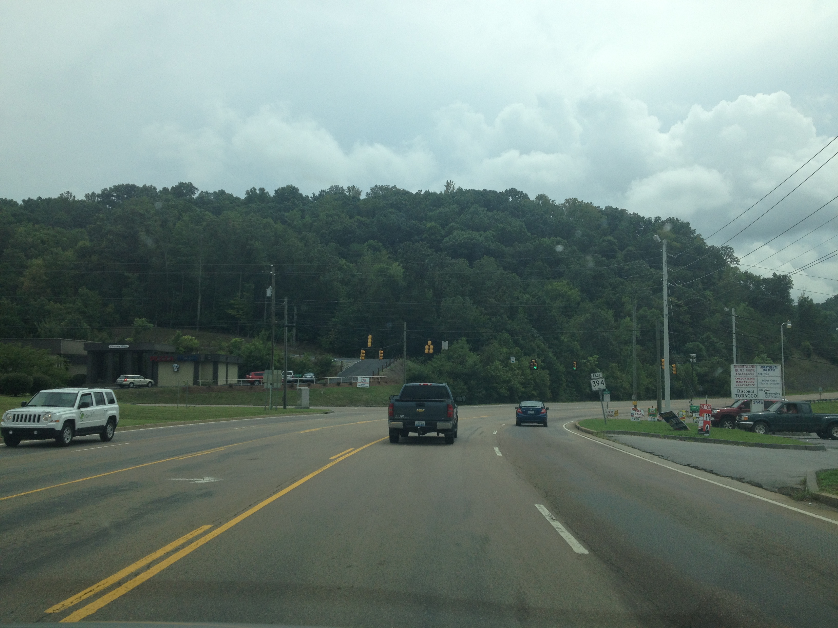 Eastbound Tennessee State Route 394 between Tennessee State Route 126 and Franklin Drive in Blountville, Tennessee